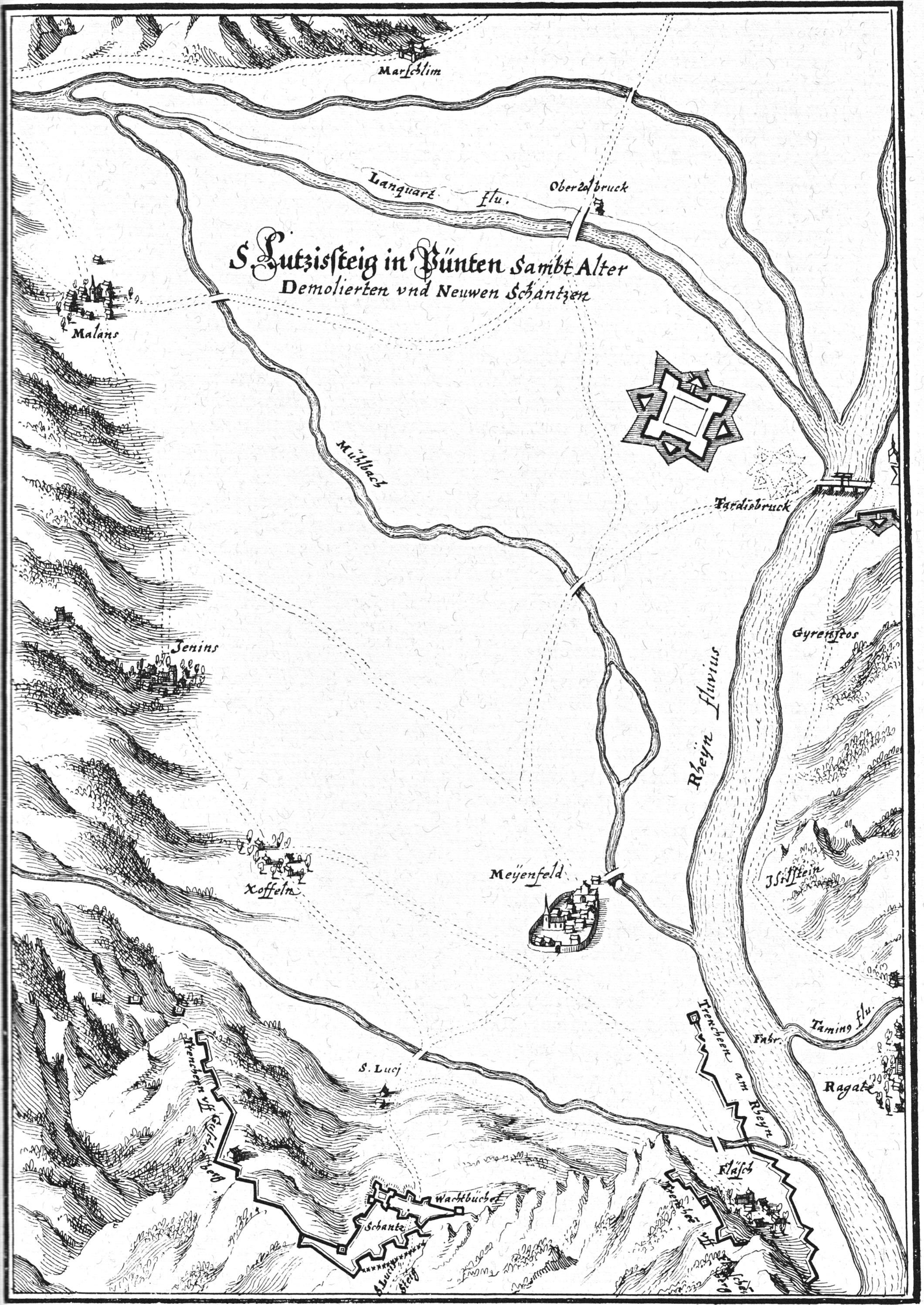 «S. Lutzisſteig in Pünten Sambt Alter Demoliertn vnd Neuwen Schantzen.» The situation between the pass of S. Luzisteig and the river Landquart in Graubünden around 1653 in the Description of the Swiss Confederacy by Matthäus Merian. The Luziensteig forteress at the very base of the picture. In the plain near the river Rhine is Rohanschanze.